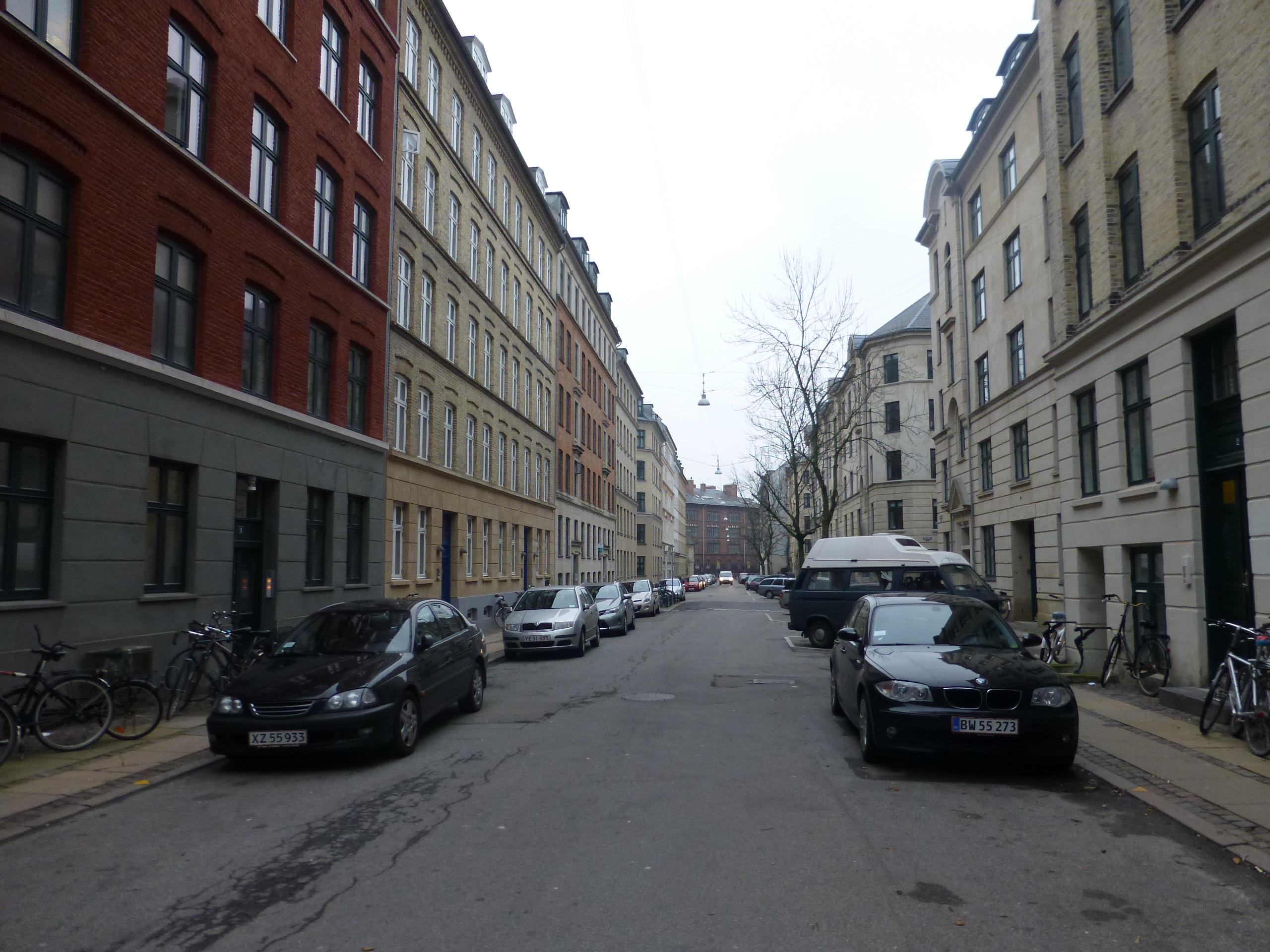 The street Hedebygade in Vesterbro in Copenhagen.